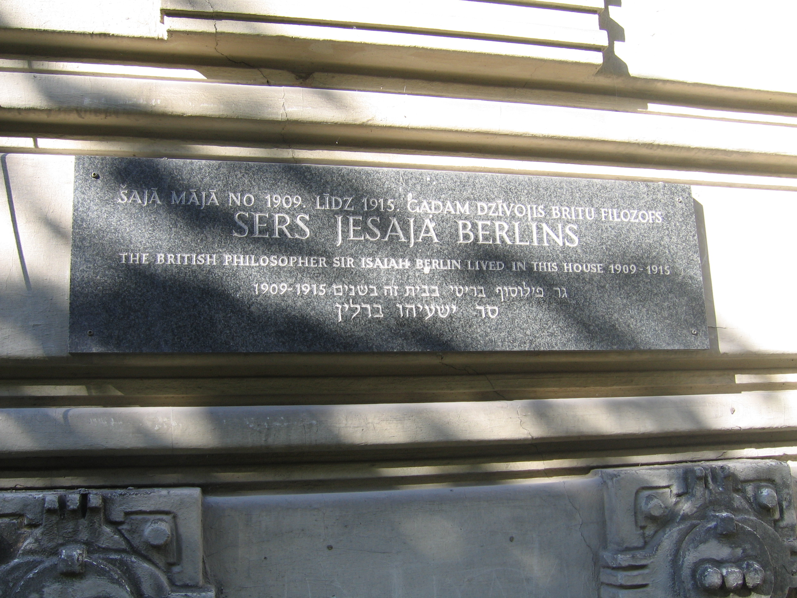 Same building as above. Alberta iela 2a